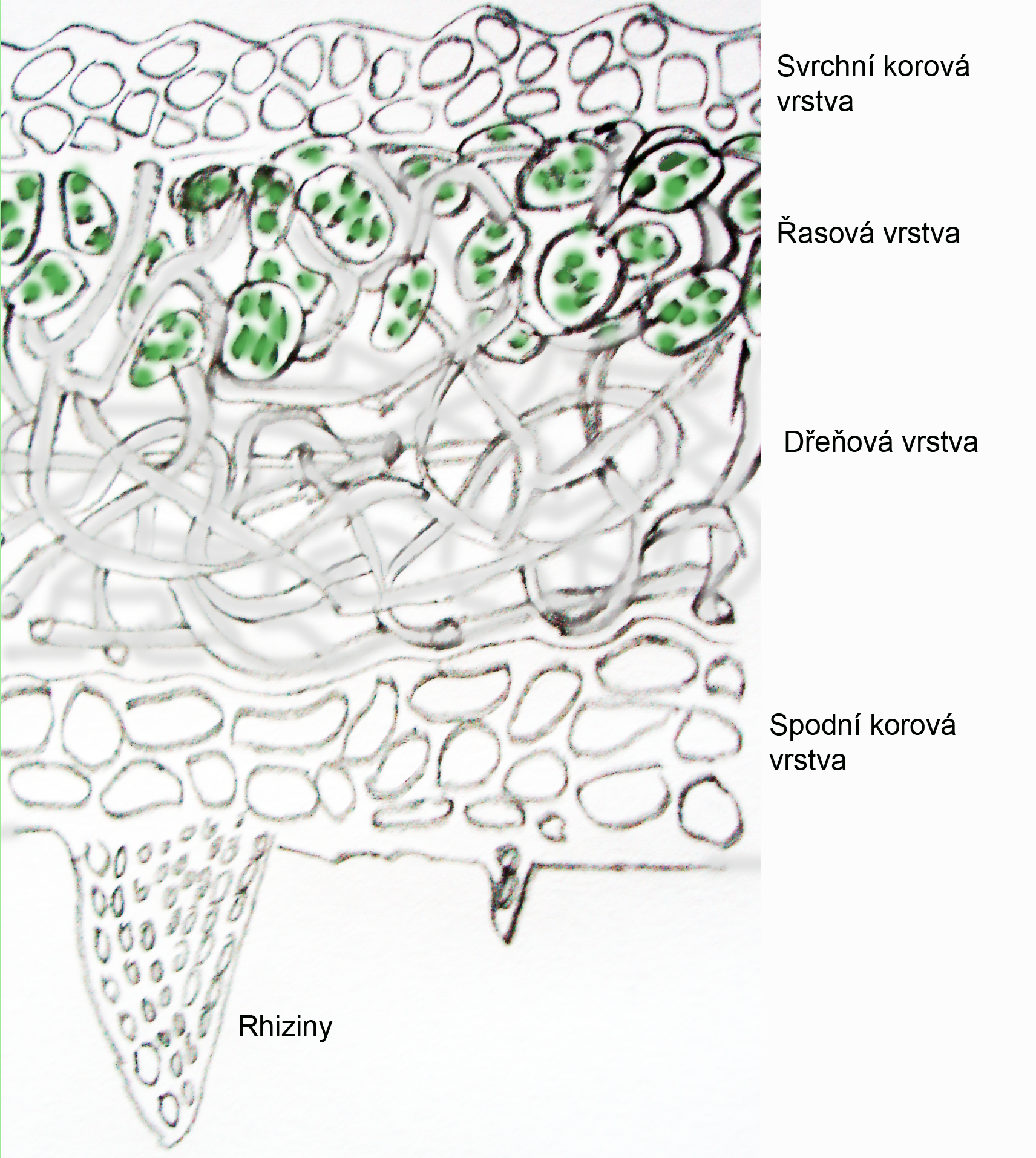 Lichen thallus cross-section, czech language